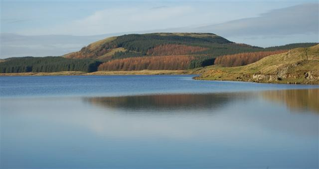 Dumglow Taken from the eastern shore of Loch Glow Reservoir.